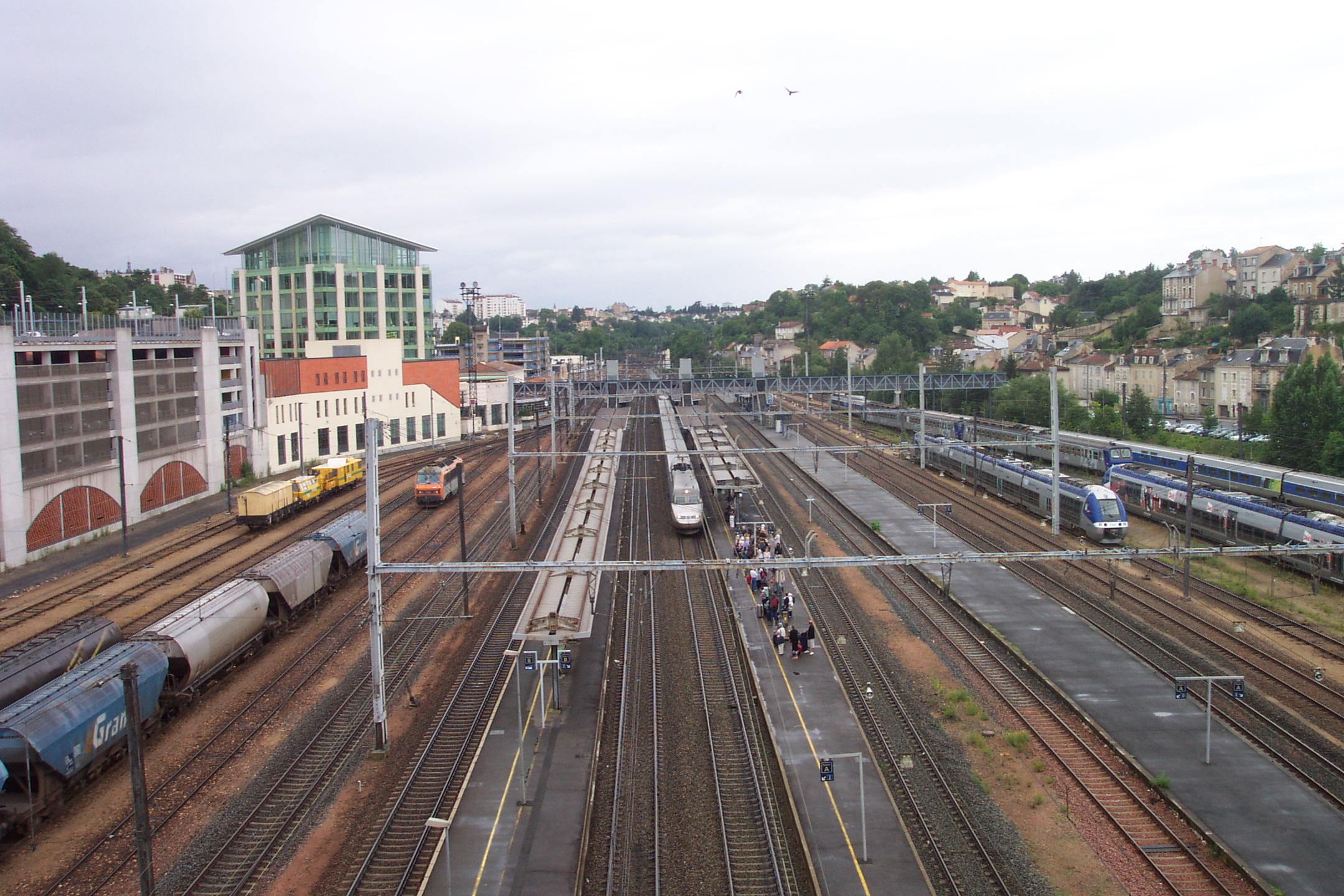 The railway station in Poitiers seen from a footbridge to the north of the station. The station building is to the left of centre, with its location indicated by the station footbridge. For more information, see the Wikipedia article Gare de Poitiers.